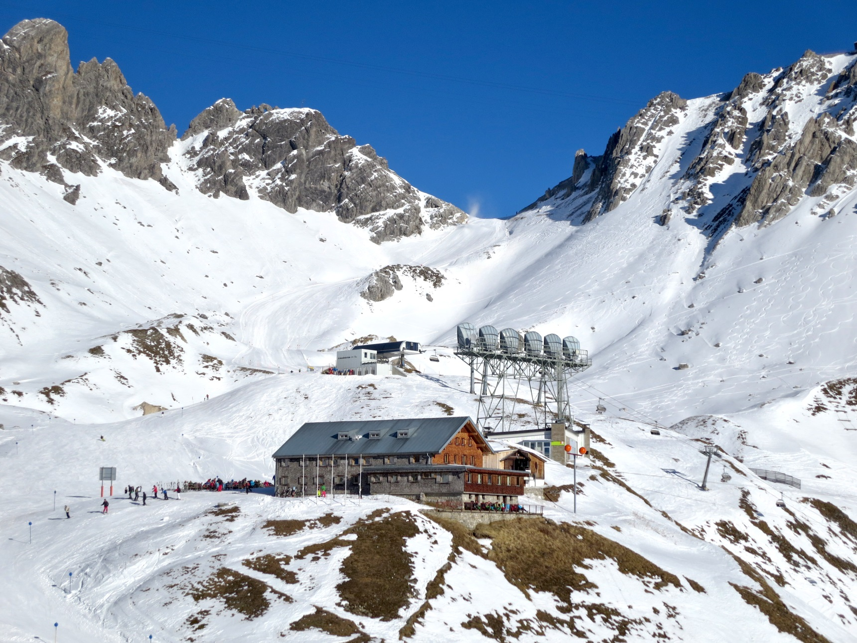 Alpine Hut Ulmer Hütte